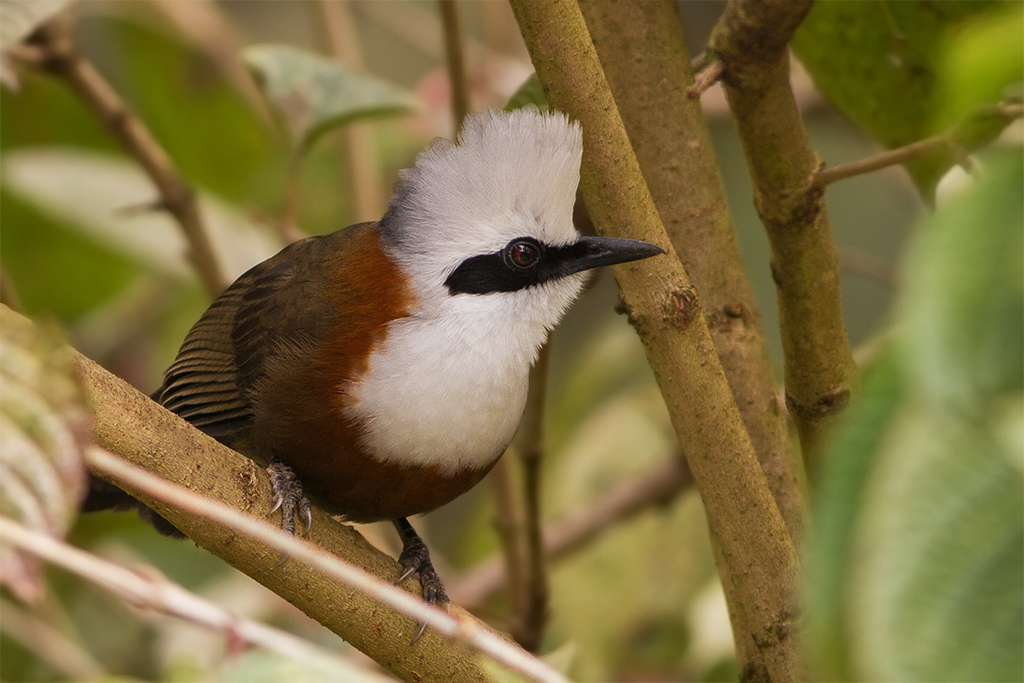 This image has been taken during the solo birding trip to Pangolakha Wildlife Sanctuary in the month of January 2014. Photographed species is a White-crested Laughingthrush.